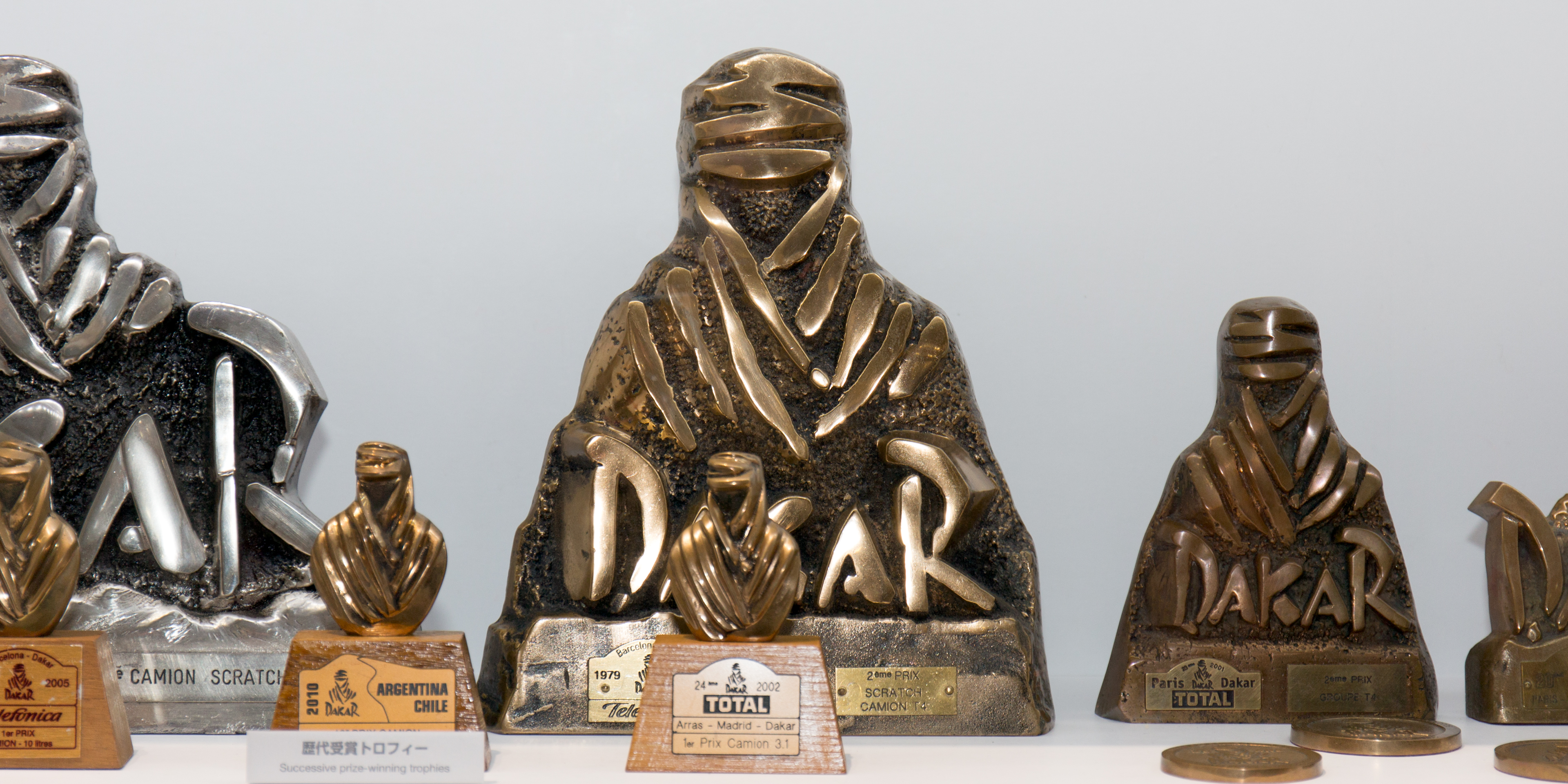 Tokyo Motor Show 2013: Hino Team Sugawara trophies of the Dakara Rally